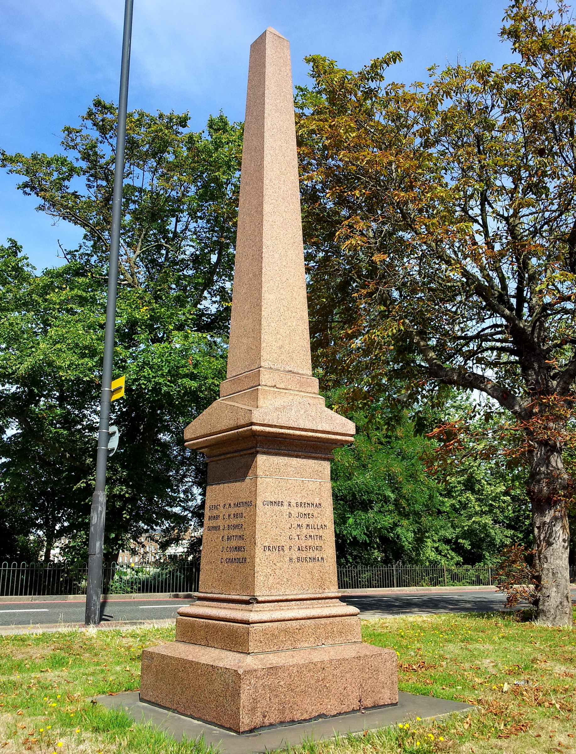 View of the Second Boer War memorial in the shape of an obelisk, opposite the Royal Artillery Barracks on Grand Depot Road, Woolwich, Southeast London.